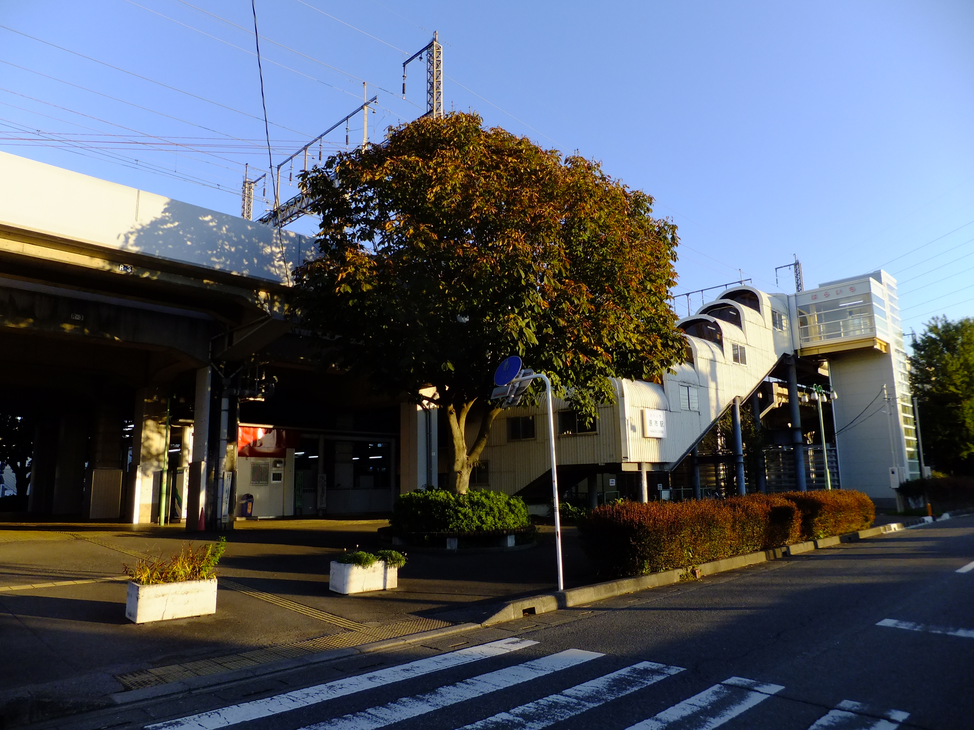 Haraichi Station on the New Shuttle Line, in Ageo, Saitama, Japan